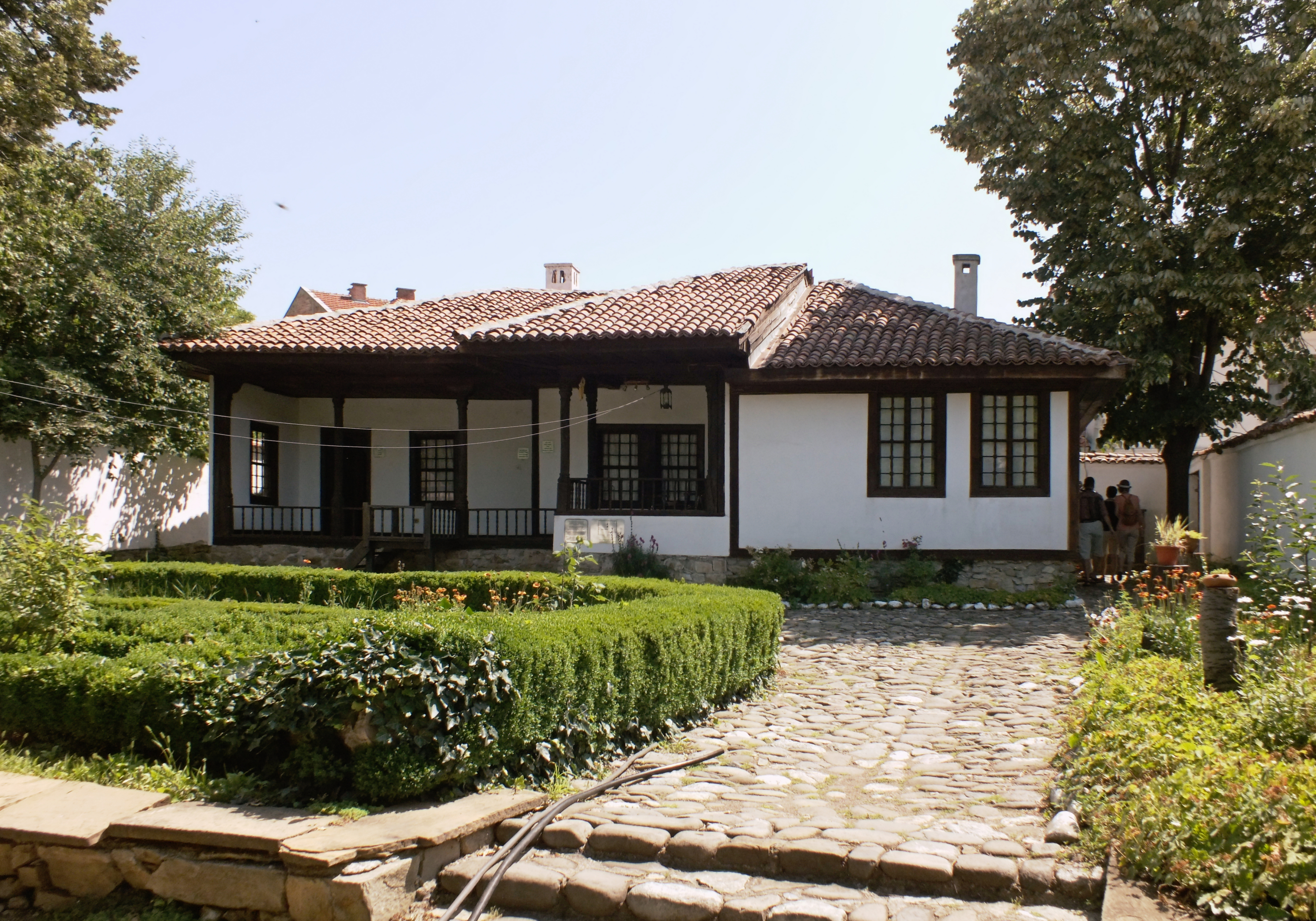 Kazanlak, Koulata Ethnographic Complex